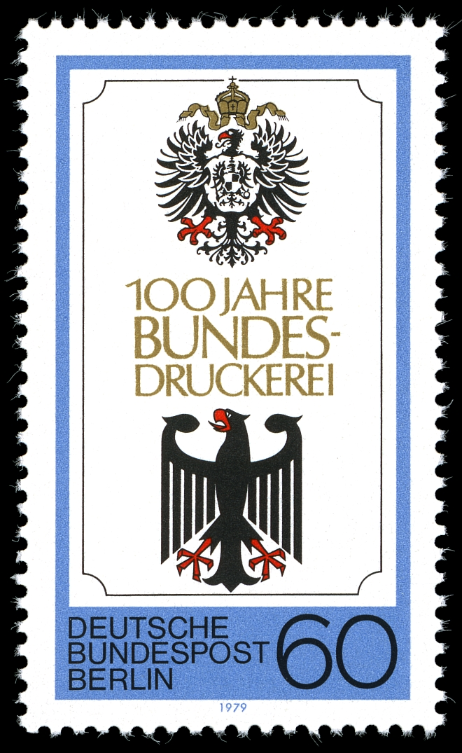 Stamp description / Briefmarkenbeschreibung Ausgabepreis: 60 Pfennig First Day of Issue / Erstausgabetag: 17. Mai 1979 Auflage: 7.500.000 Entwurf: Hiller Druckverfahren: Offsetdruck Michel-Katalog-Nr: Ländercode-MiNr: 598